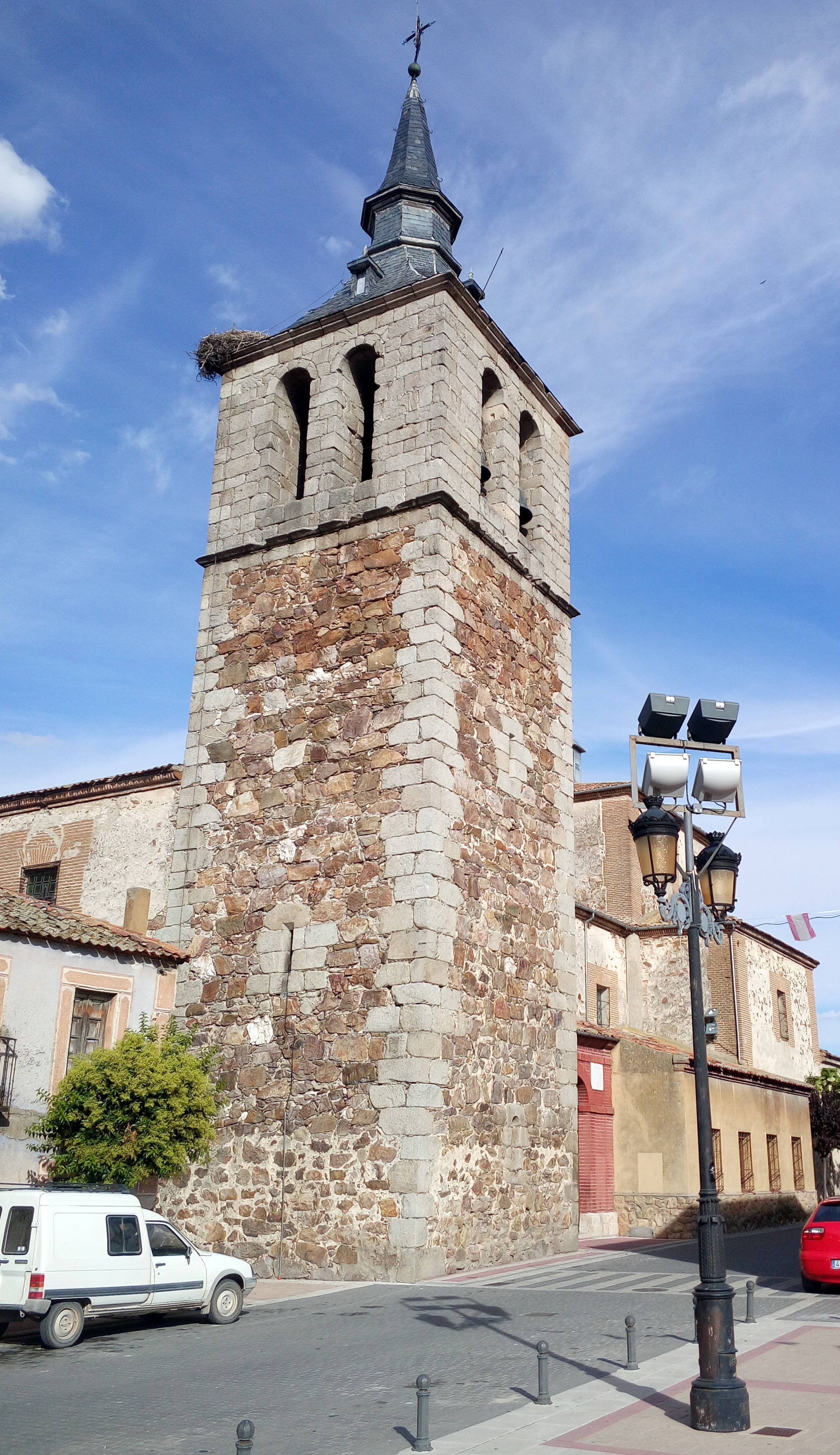 Church of Saint Justus and Pastor in Navalmanzano, Segovia, Spain.